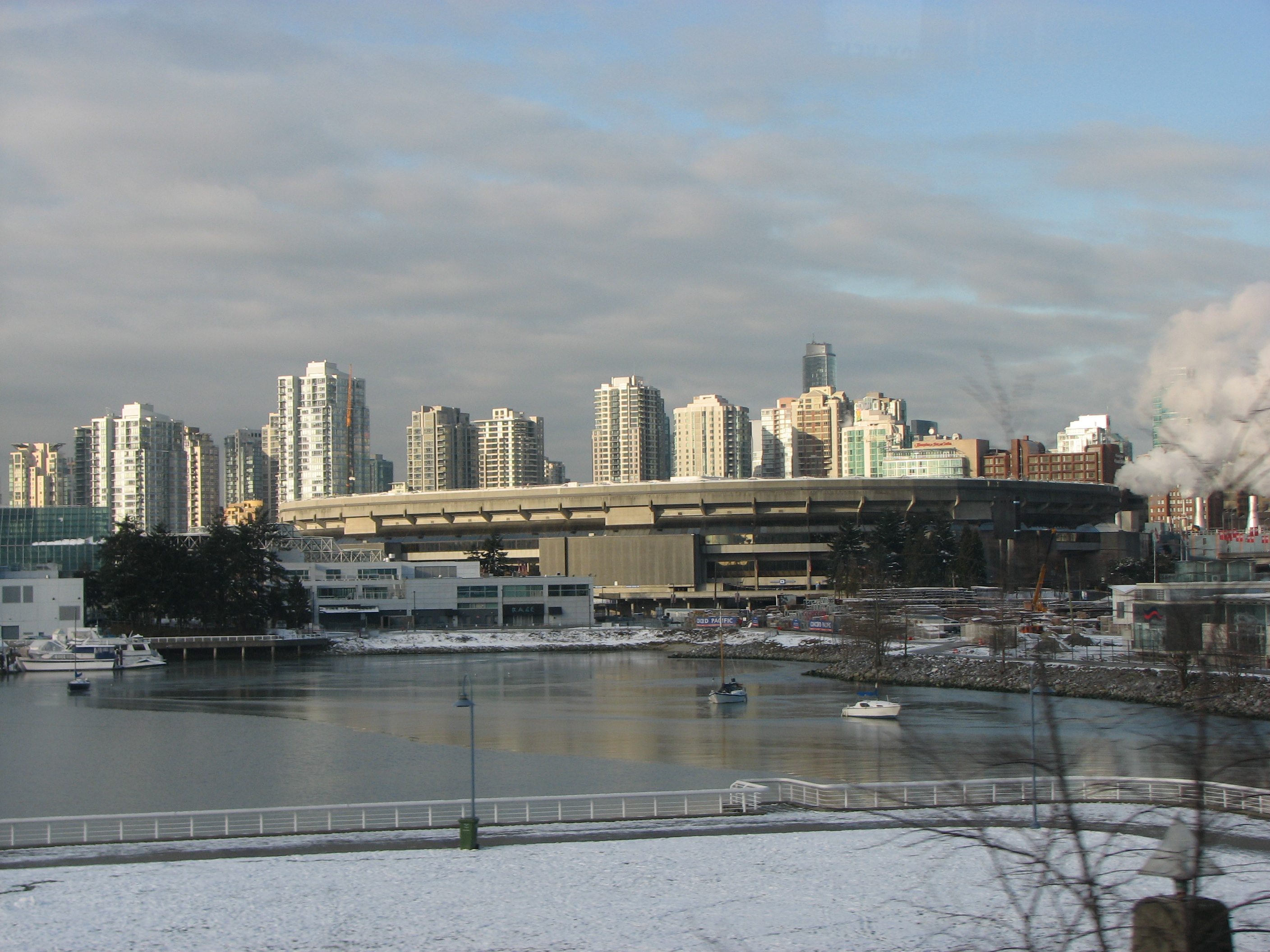 BC Place with its roof deflated (temporary repairs are underway as of photo shoot)